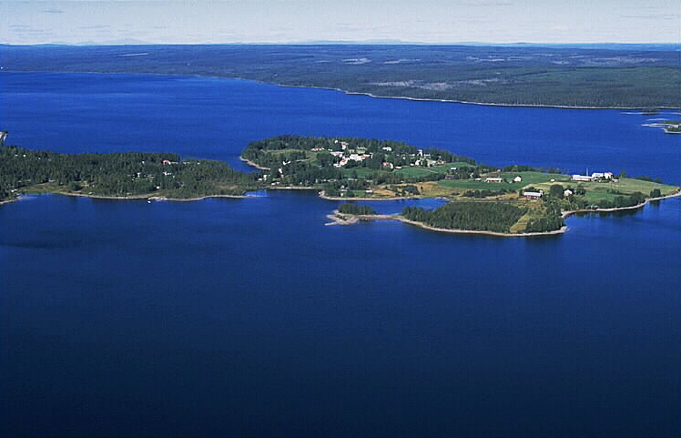 Alanäs village and the lake Flåsjön in Strömsunds municipality, Jämtland county, Sweden